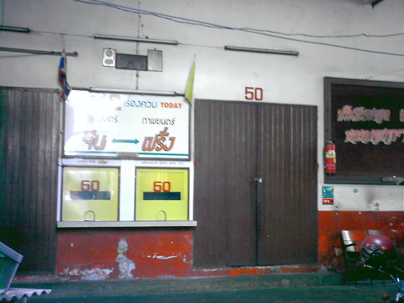 Screening Hall of Prince's Cinema, Charoen Krung Road, Bangkok, Thailand 中文（香港）: 泰國，曼谷，石龍軍路，王子戲院，放映室